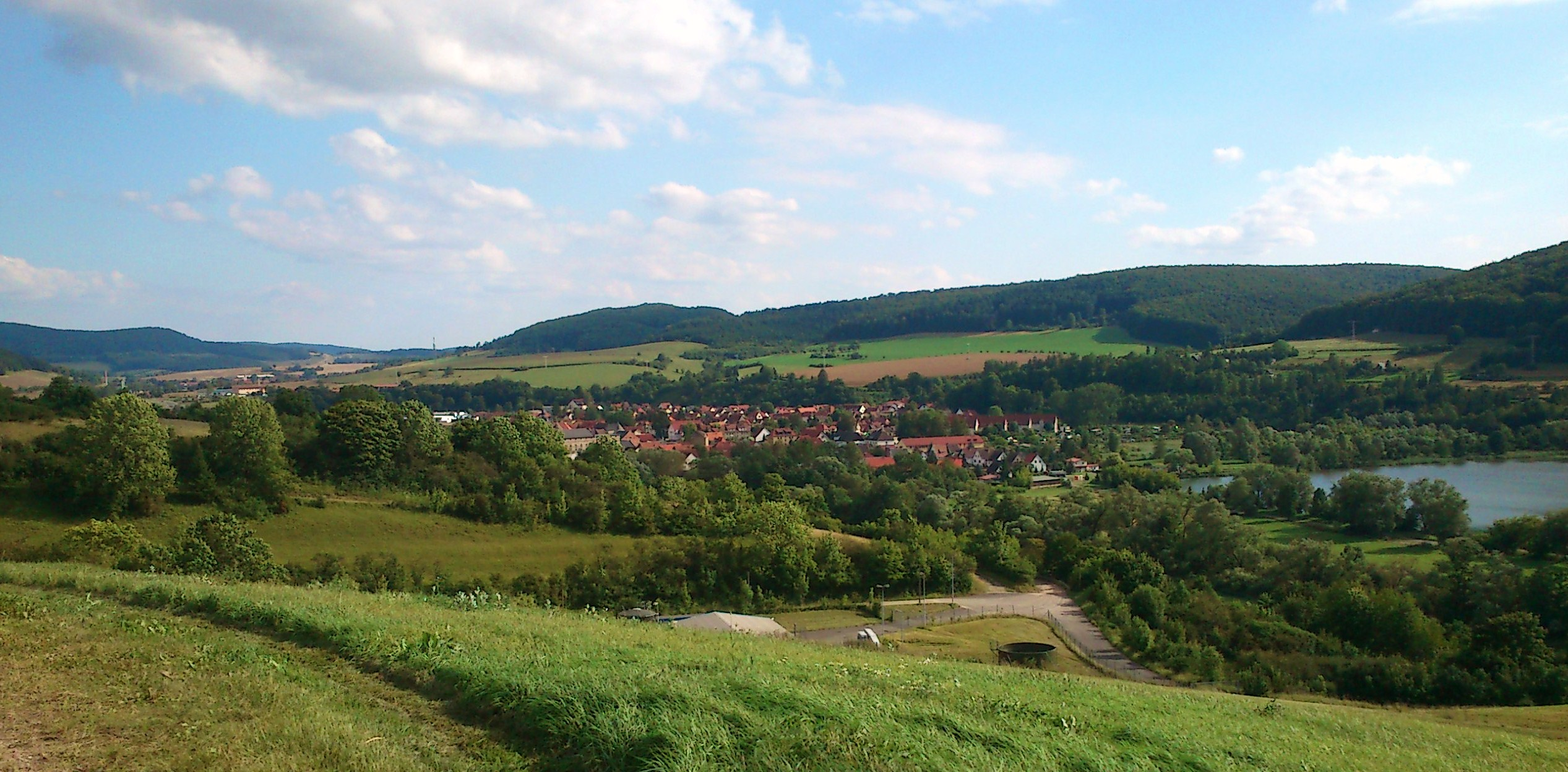 Valley of the river Werra near city Meiningen